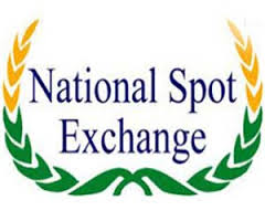 भारत का राष्ट्रीय स्तर का संस्थागत इलेक्ट्रॉनिक तथा पारदर्शी हाजिर व्यापार मंच है।